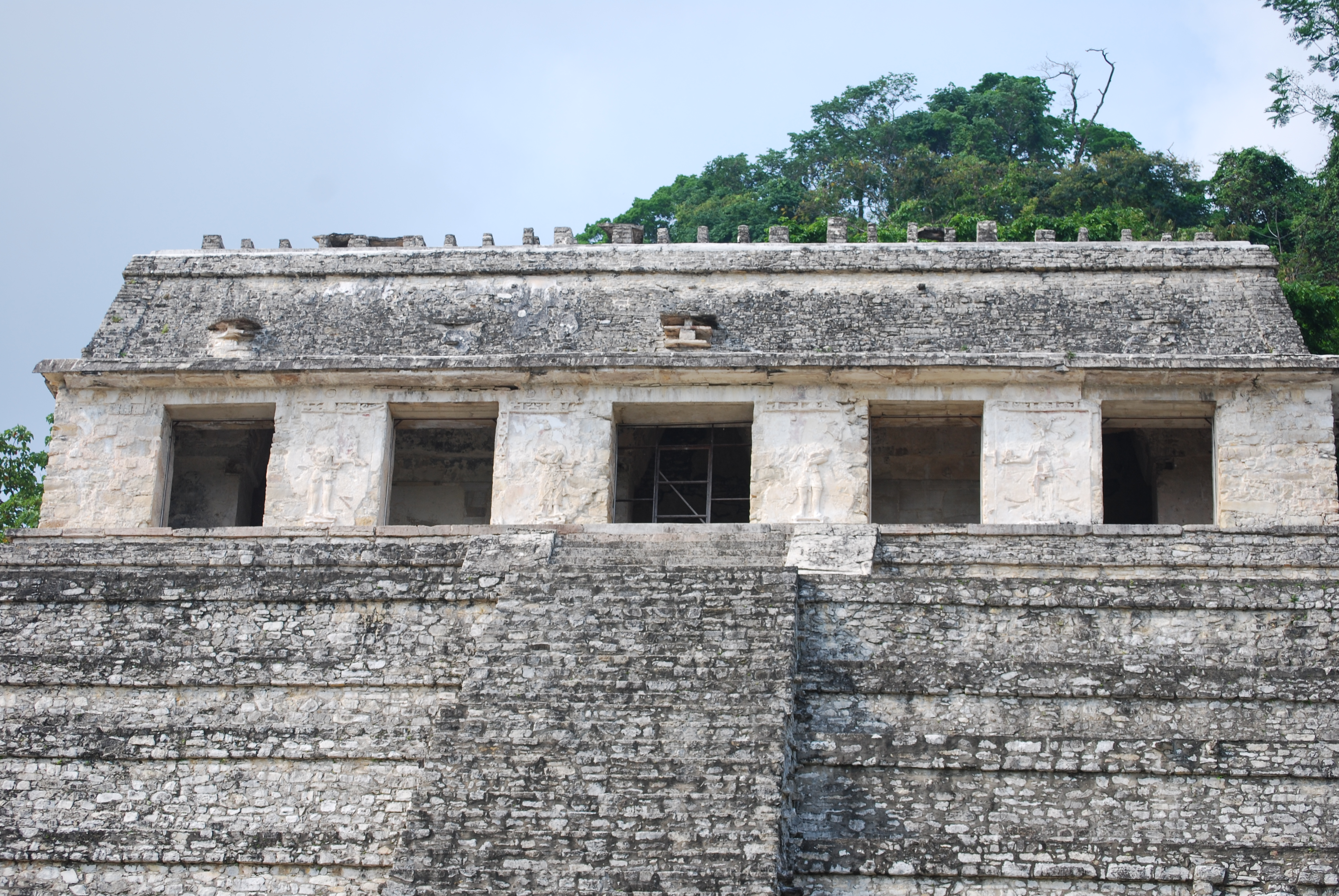 Upper part with panels at the Temple of Inscriptions in Palenque, Chiapas, Mexico